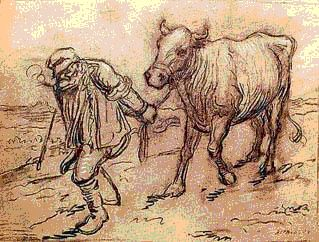 A drawing of a Jewish cattle-dealer in Alsace, France, by Alphonse Levy